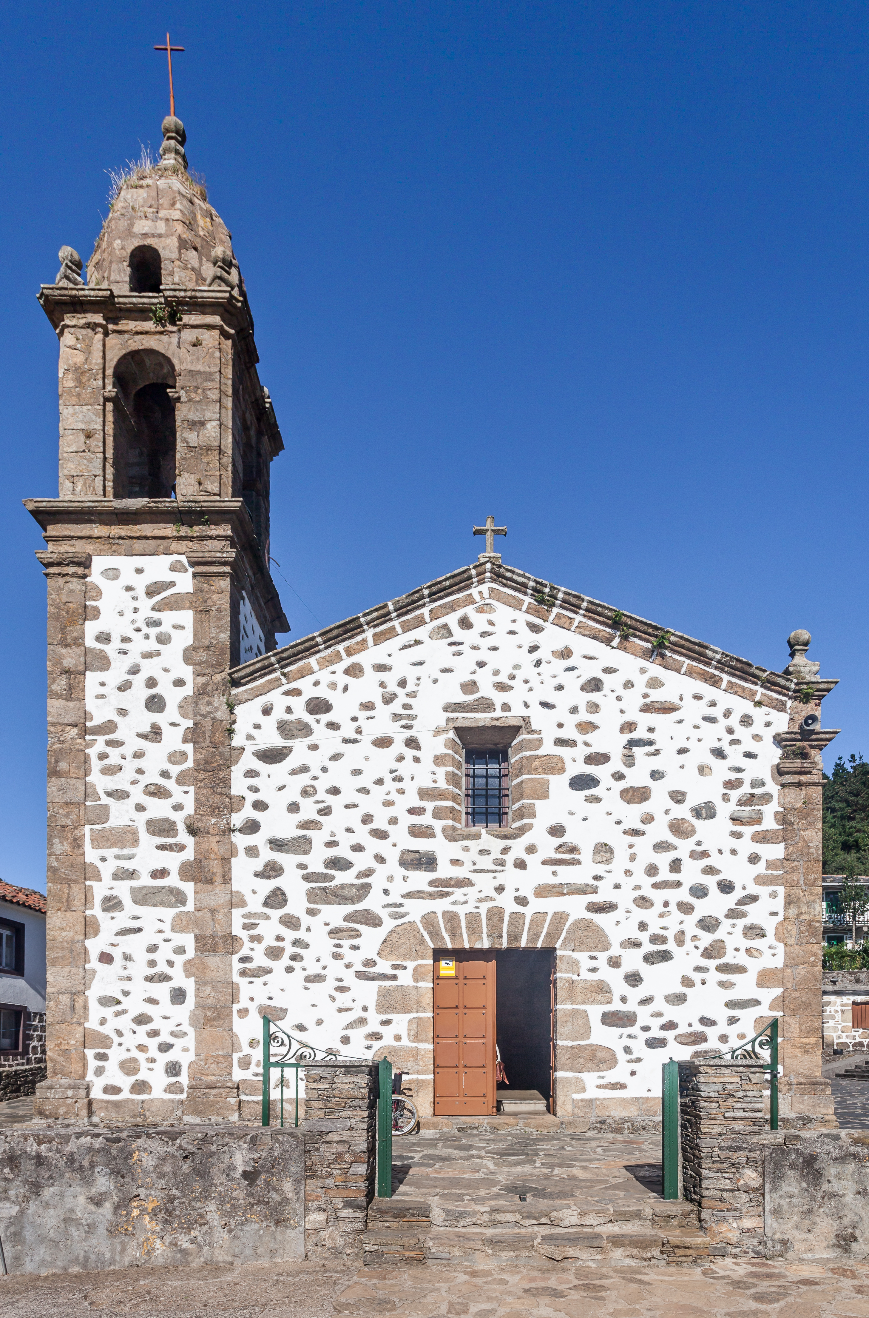 Santo André de Teixido, Cedeira, Galicia (Spain)